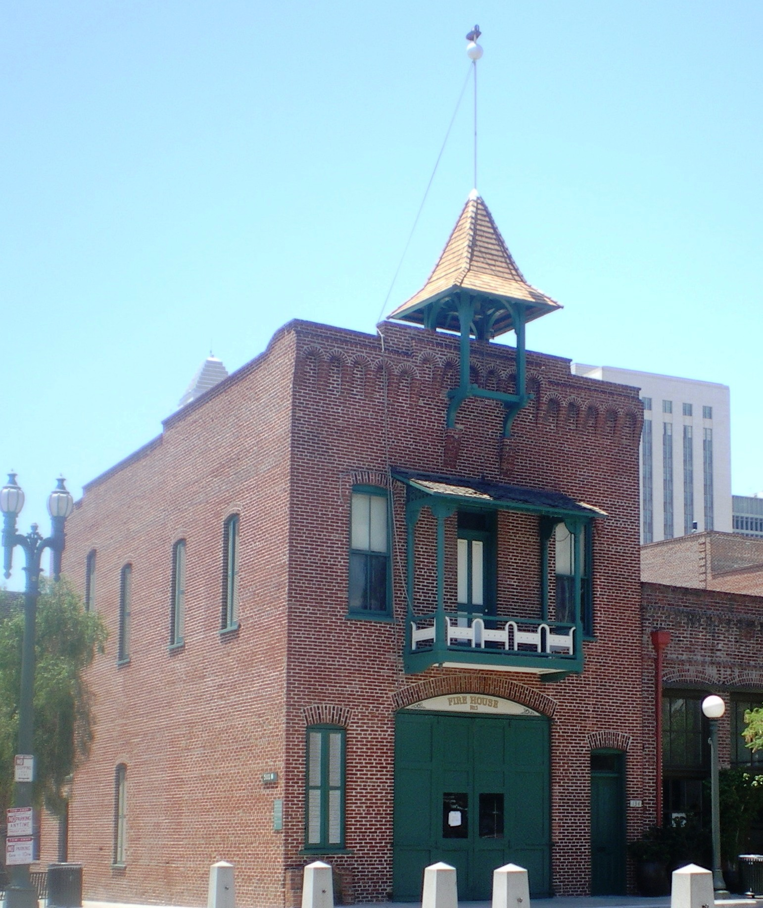 Old Plaza Firehouse (1884), Los Angeles Plaza Historic District.